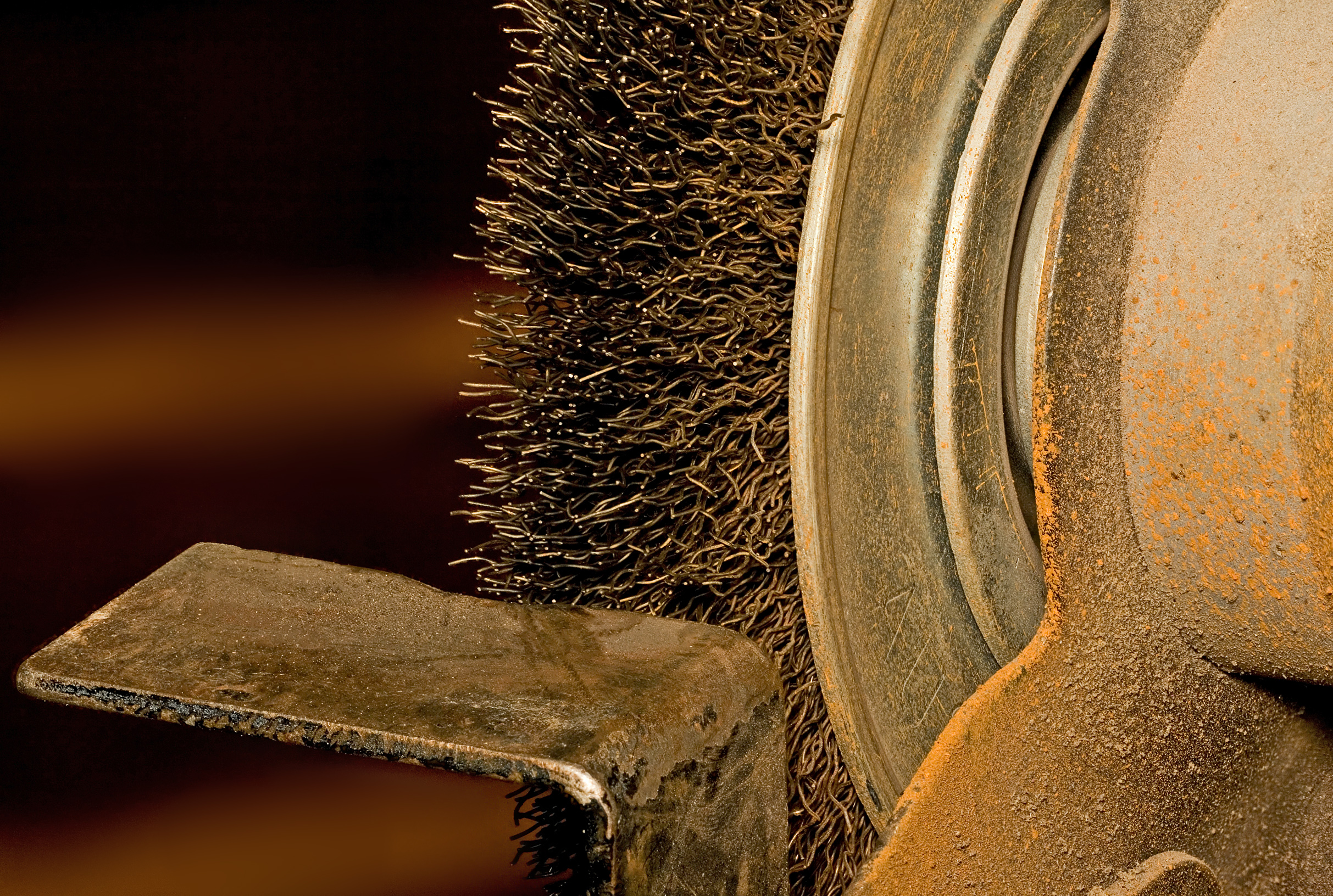 A circular wire brush mounted to an 205mm (8in) bench grinder with a tool rest in front. Camera data Camera Canon EOS 400D Lens Canon EF 70-200mm f4L w/ 36mm extension tube Flash Softbox Focal length 122 mm Aperture f/10 Exposure time 1/200 s Sensivity ISO 100